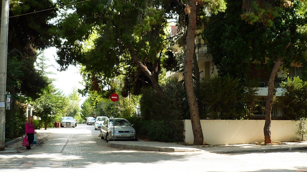 Maroussi neighbourhood.